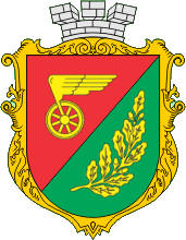 Coat of Arms of Znamyanka. Kirovohrad Oblast Ukraine